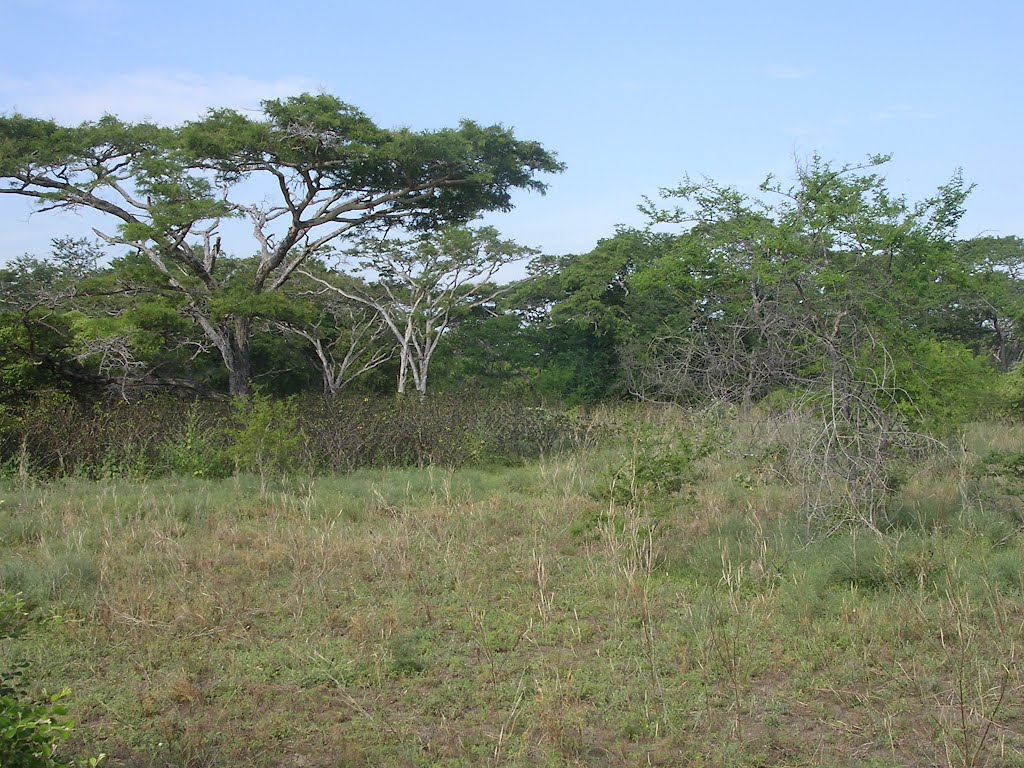 Typical coastal savanna at Parlemento, Lautem, Timor-Leste